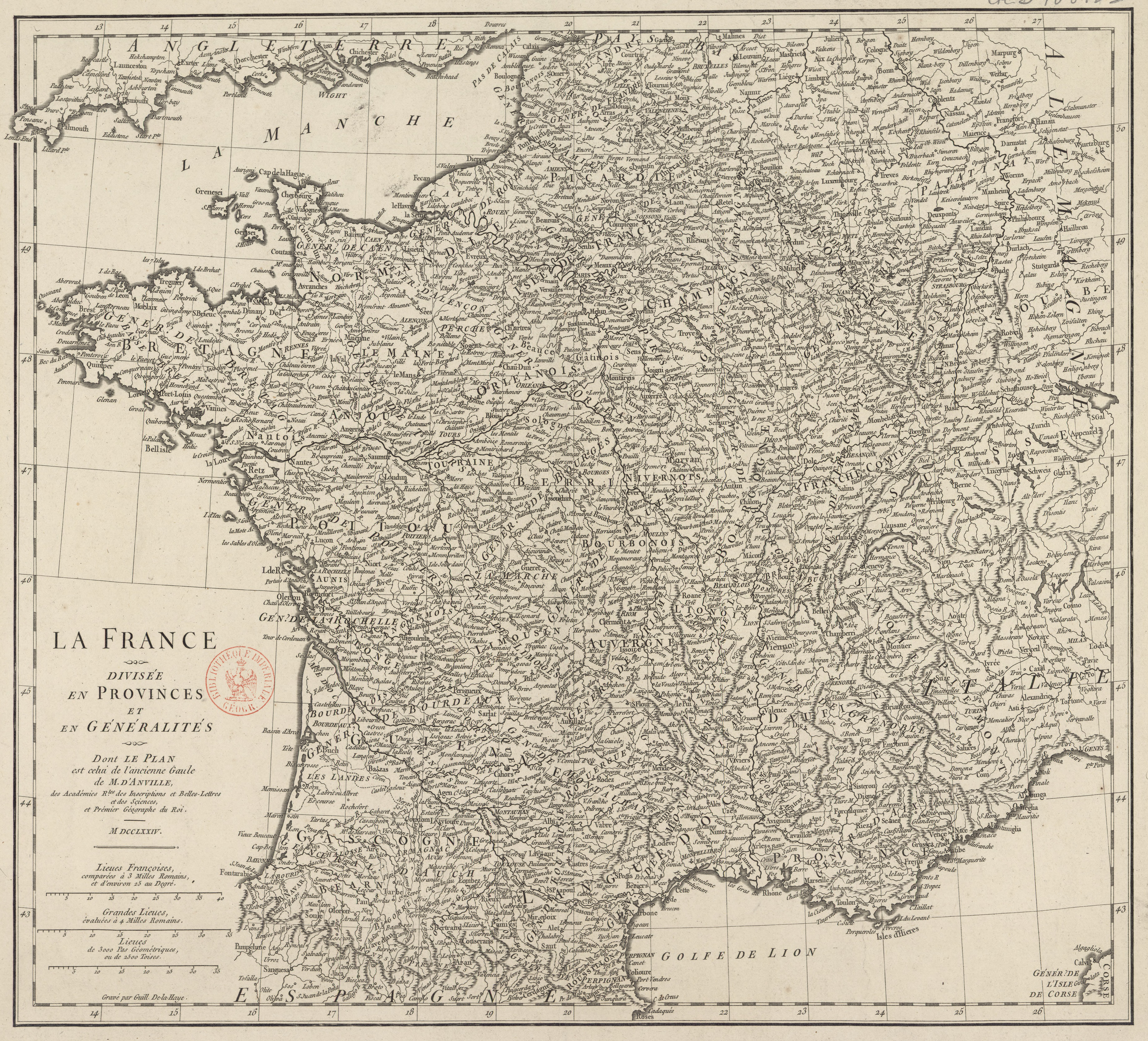 Map of provinces and généralités of Ancien Régime France